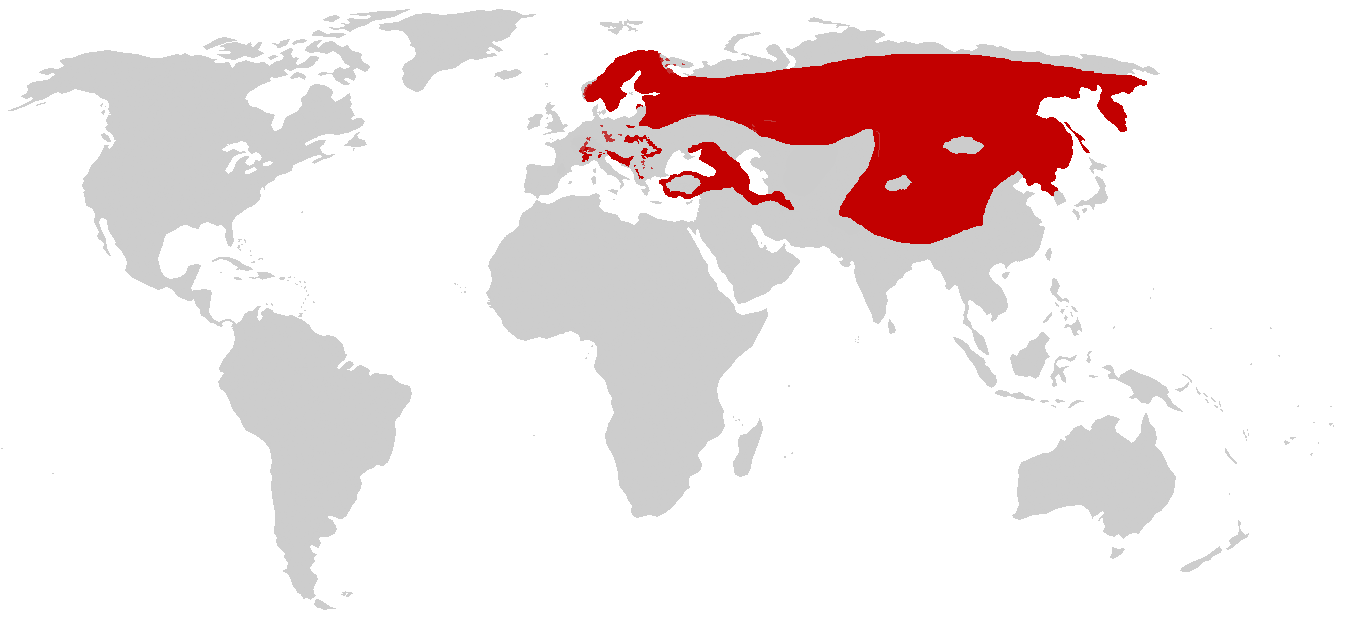 Map showing the approximate distribution of the Eurasian Lynx (Lynx lynx).